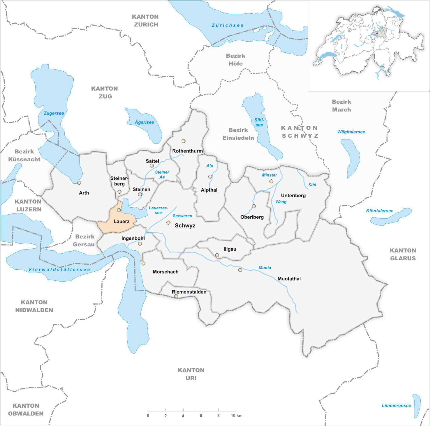 Municipality Lauerz